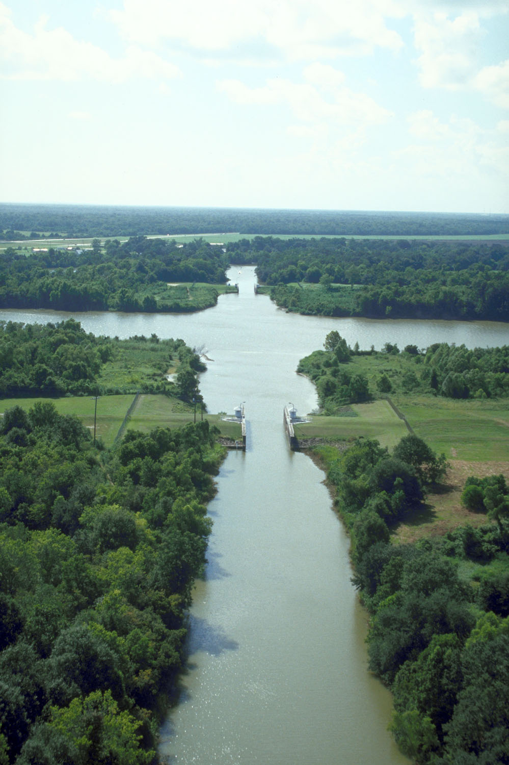 The intersection of Bayou Teche and the Wax Lake outlet of the Atachafalaya River near Patterson, Louisiana, USA. Bayou Teche runs straight up the center of the picture. The Wax Lake outlet of the Atchafalaya runs across left–right. The U.S. Army Corps of Engineers has built water control structures on the bayou where it intersects with the river.